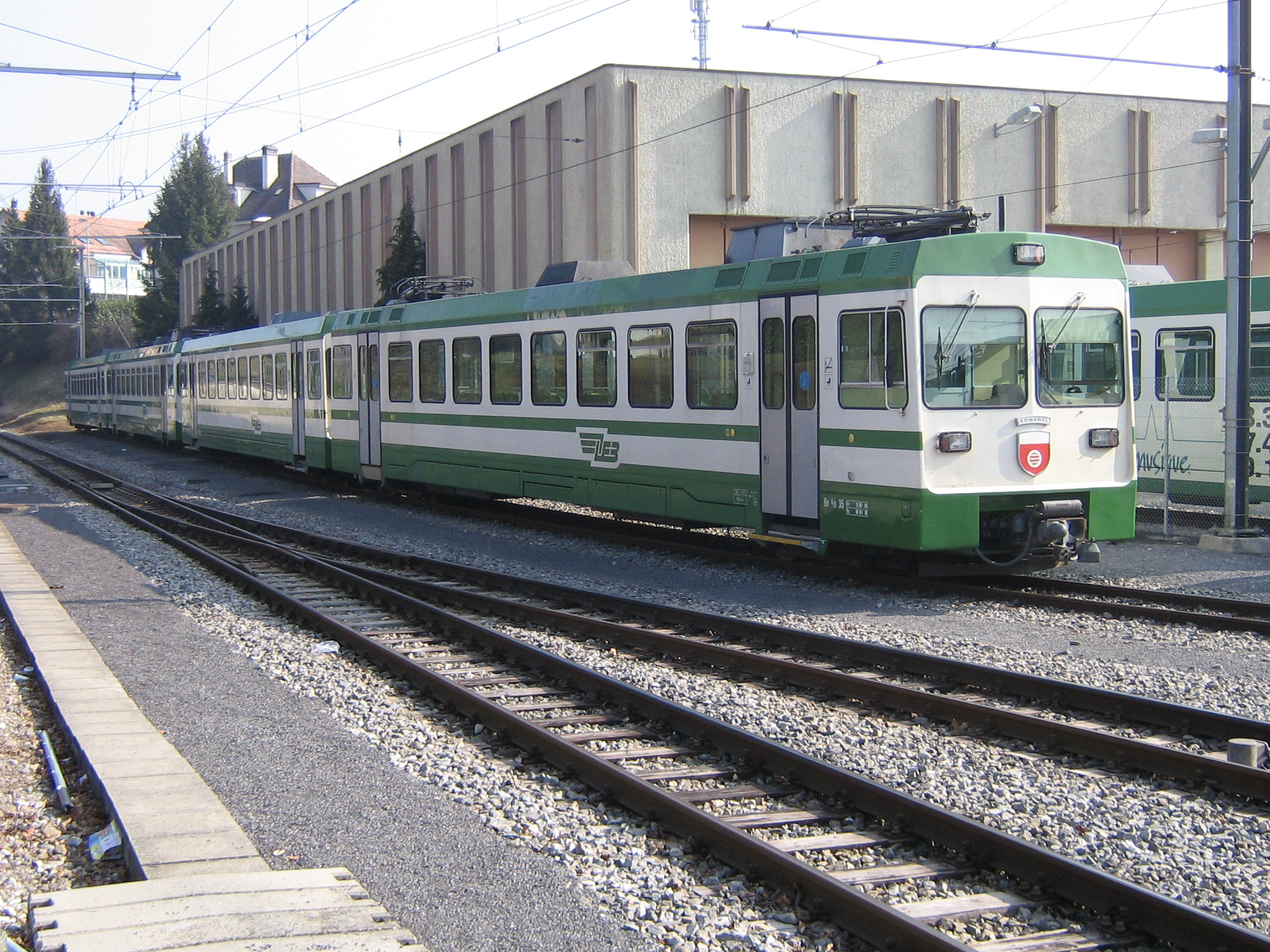 Multiple unit with Be 4/8 35 "Romanel" and Be 4/8 33 "Bercher" of the LEB. Roundhouse Échallens.